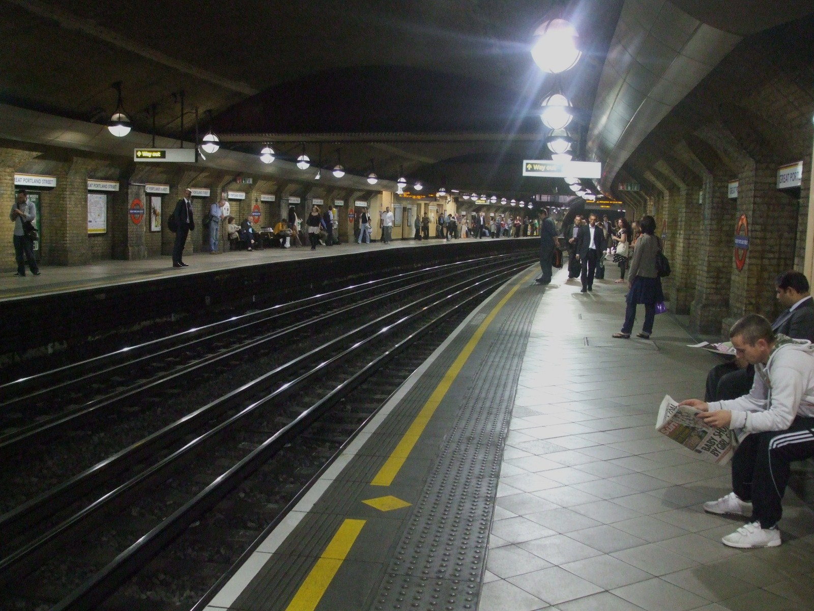 Great Portland Street tube station platforms looking west